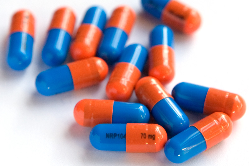 Vyvanse (Lisdexamfetamine) 70mg capsules